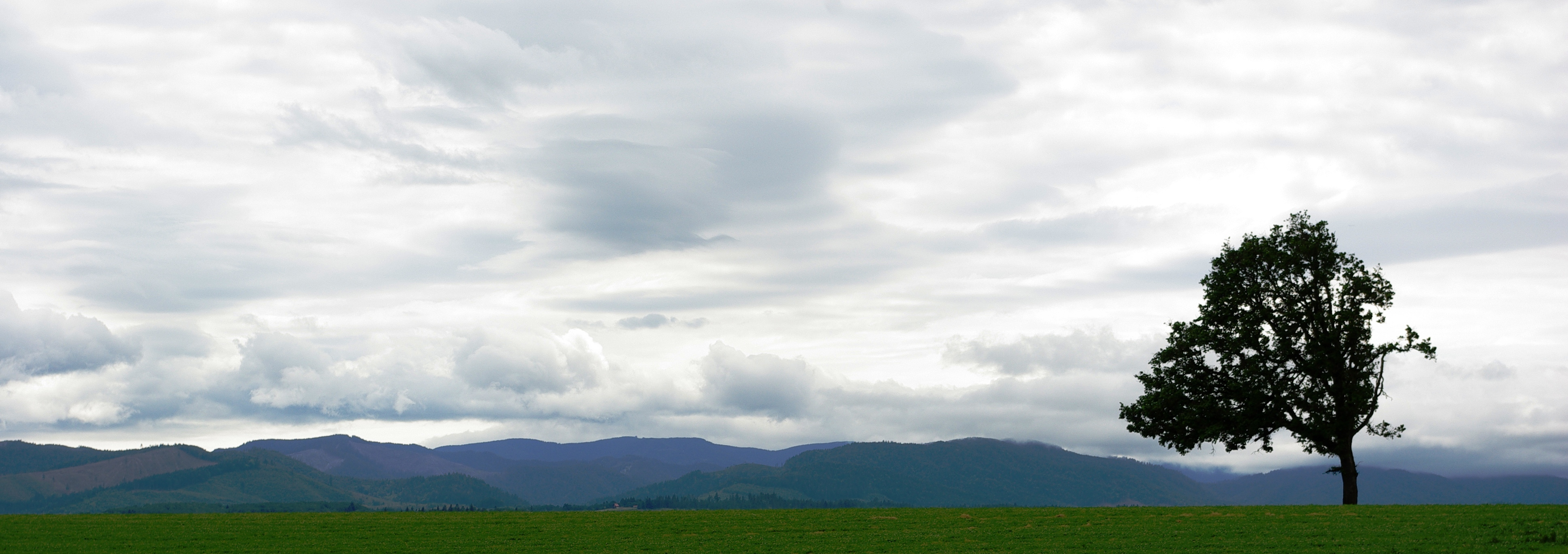 Vista in Polk County, Oregon